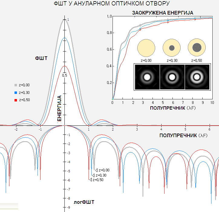 ФШТ ЗА АНУЛАРАН ОПТИЧКИ ОТВОР